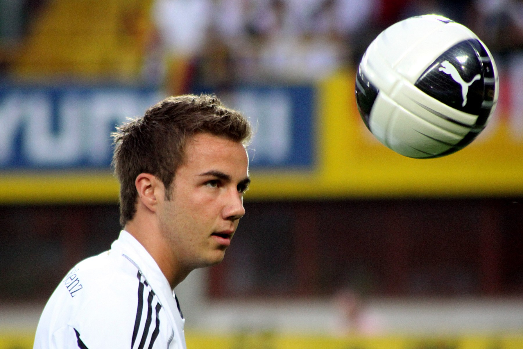 Mario Götze (Borussia Dortmund), german national football team